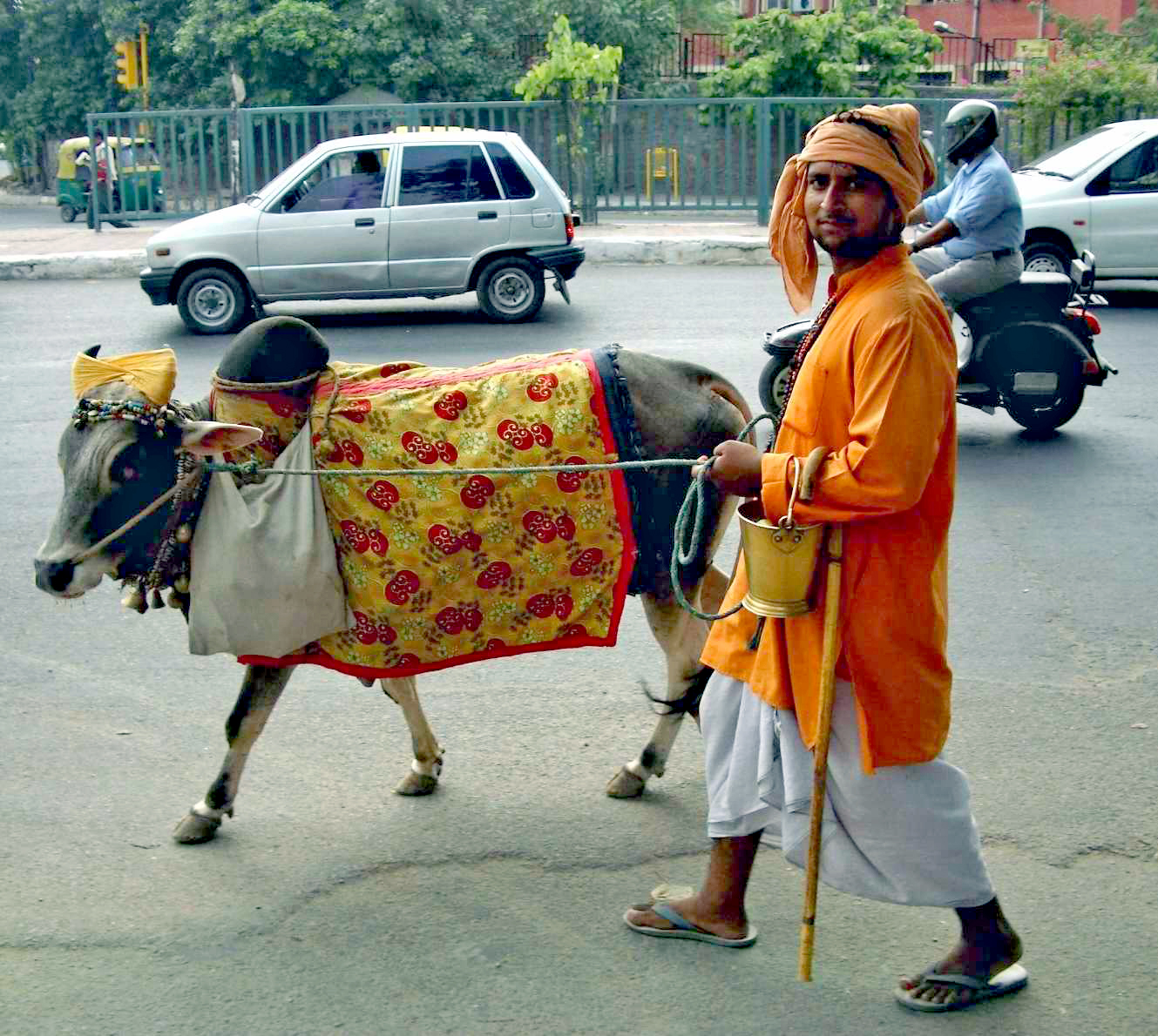 Cow on Delhi Street with a Brahmin